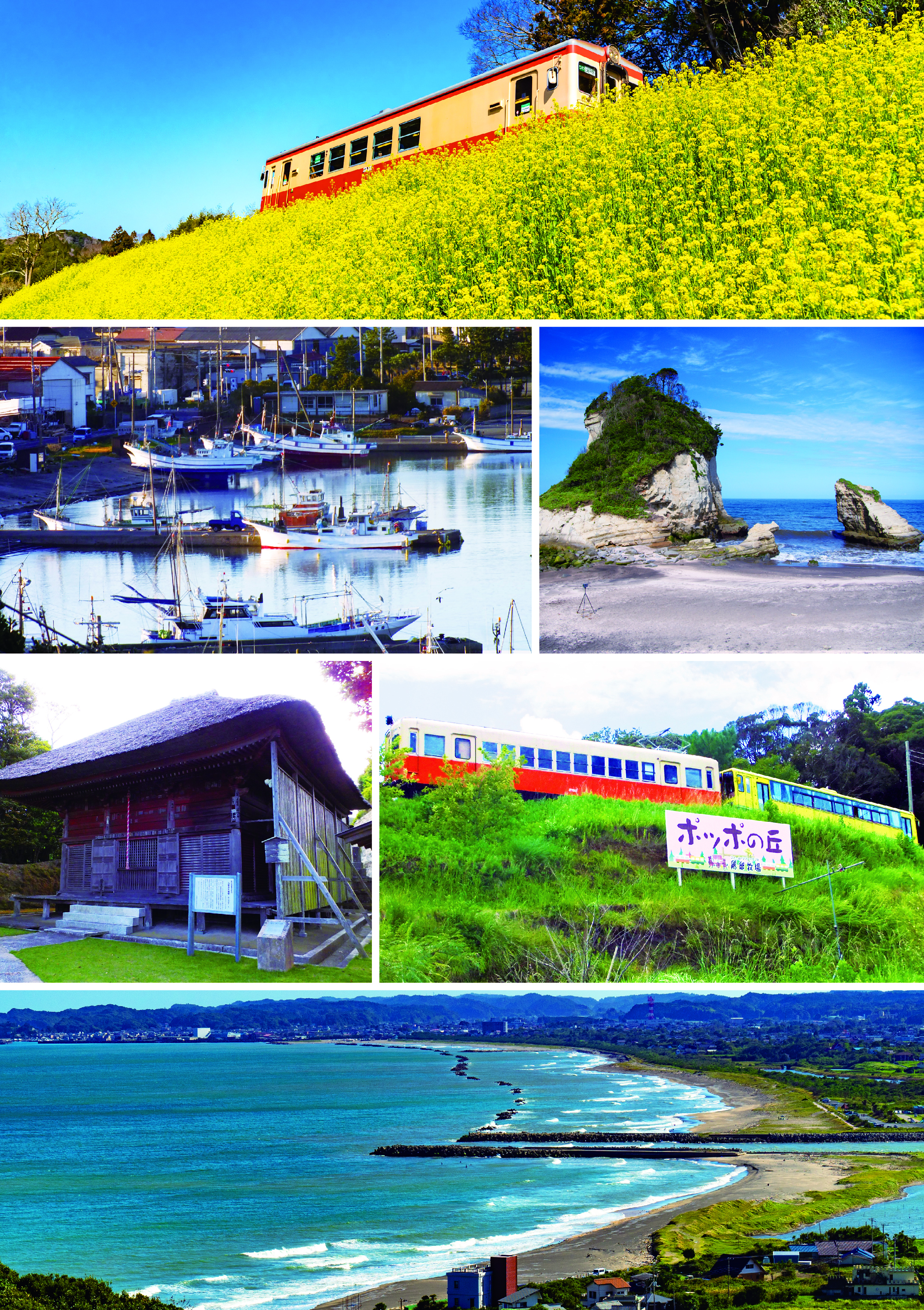 Isumi montage.jpg